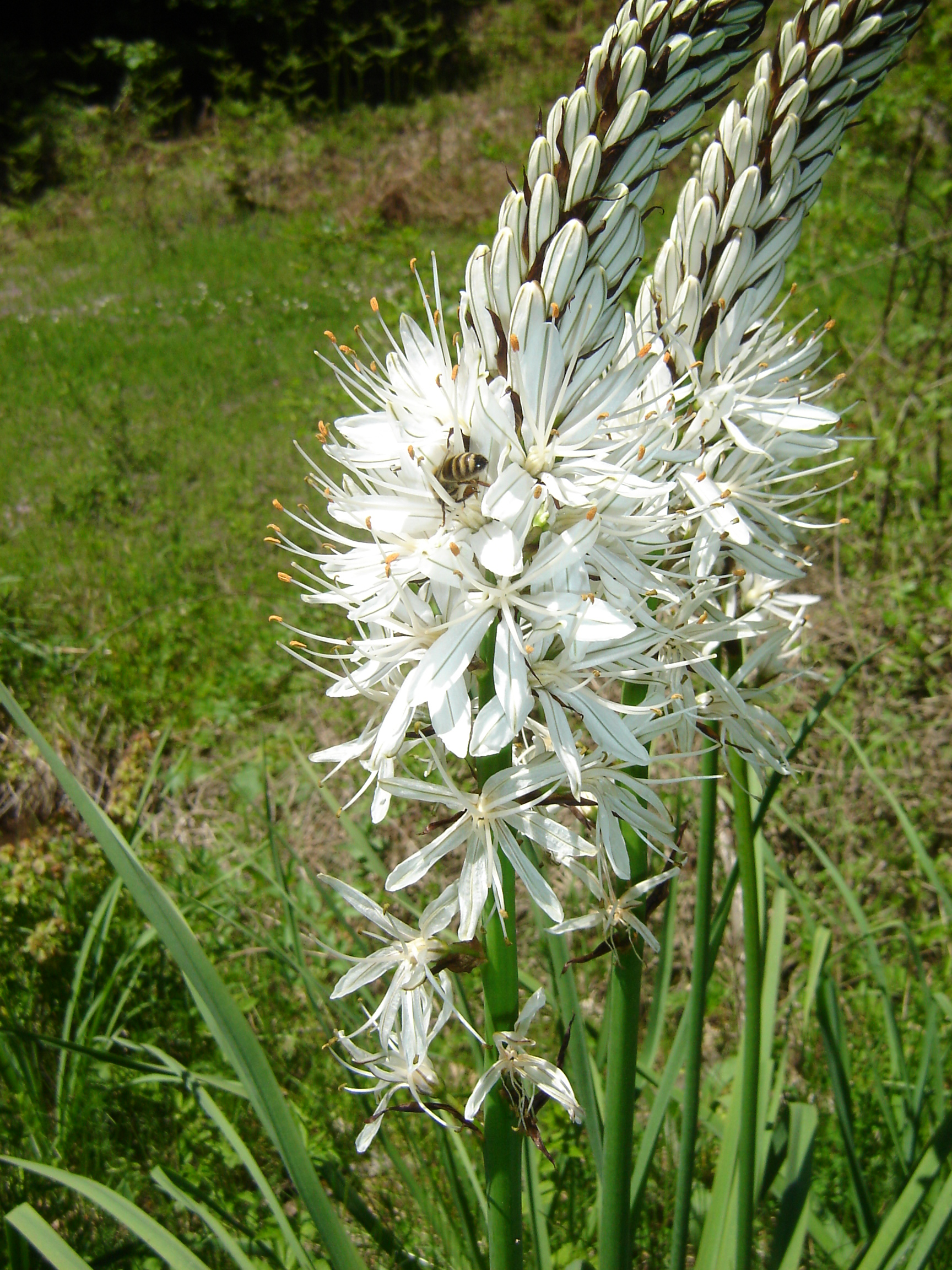 Morphology of Asphodelus albus, Mavrovo National Park, Macedonia